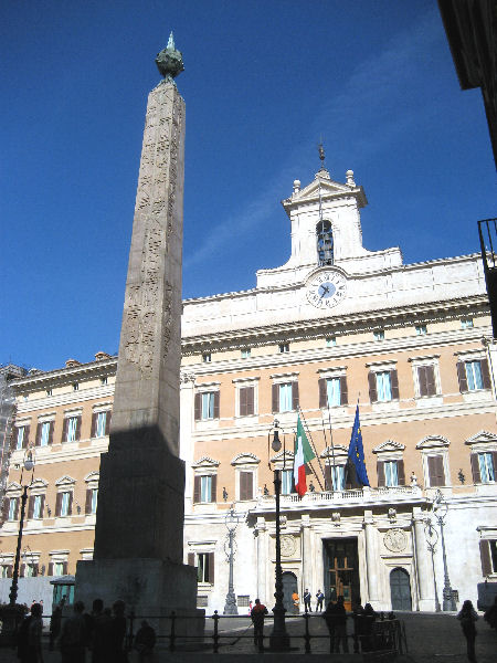 Obelisk of Psamtek II, Horologium Augusti, Rome